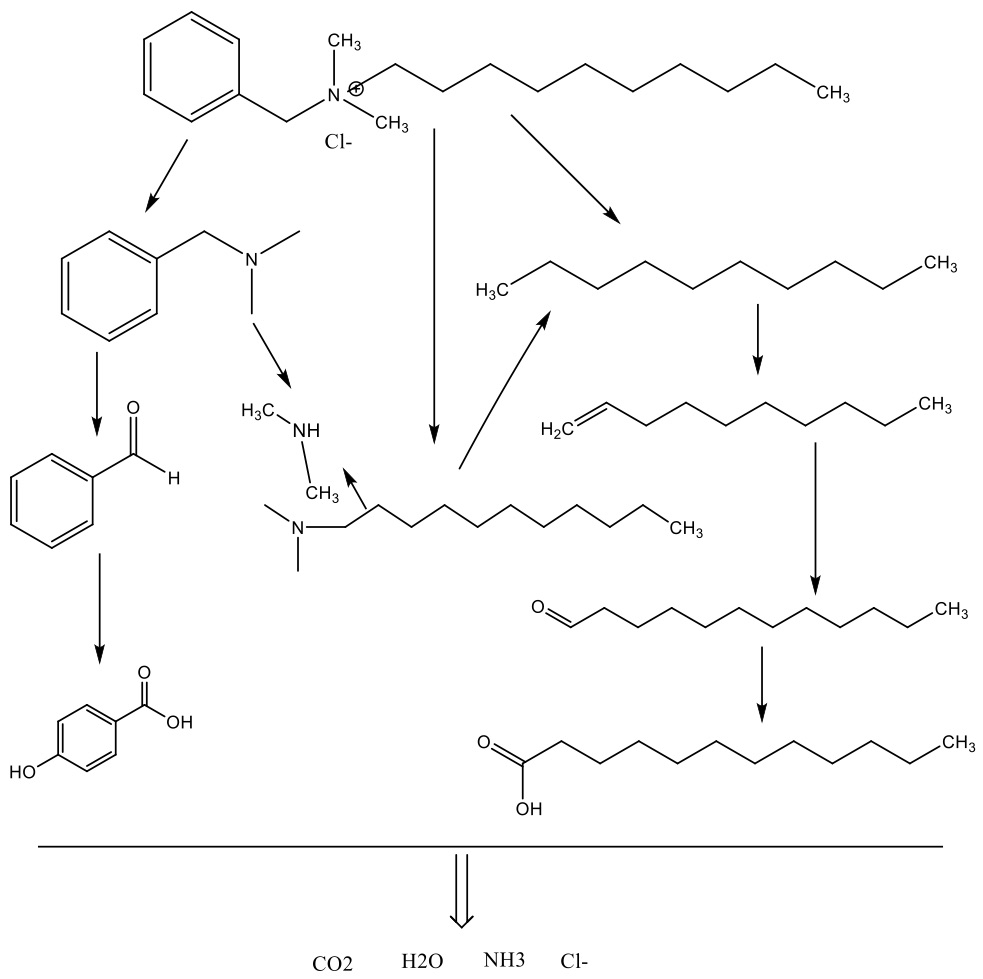 Biodegradation pathways of BAC using the Fenton Process (H2O2/Fe2+)